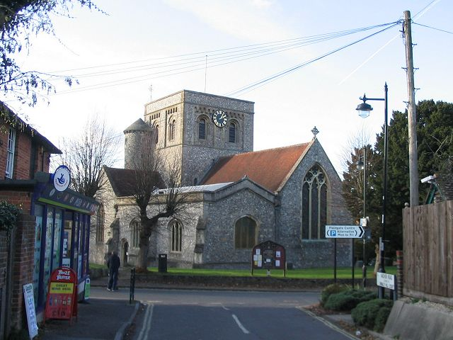 St Mary's Church, Kingsclere Viewed from Anchor Street. The sign points to alternative parking - there is a small park at the other end of Anchor street.